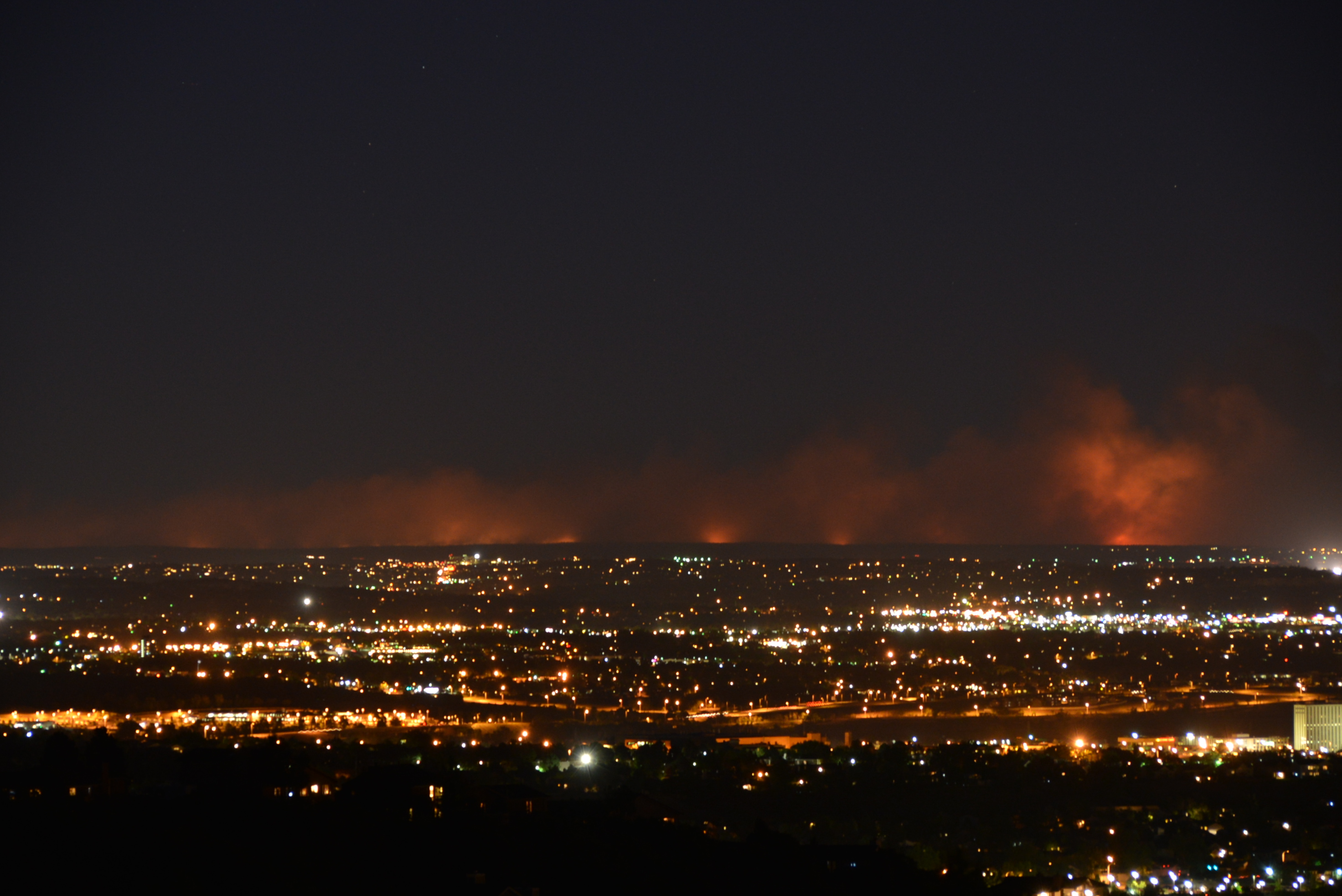 A night time image of the Black Forest Fire at 9:30 pm on the night of the first day, 11 June 2013. Photo was taken from the Broadmoor Bluffs neighborhood of Colorado Springs on the lower slope of Cheyenne Mountain, about 20 miles away.